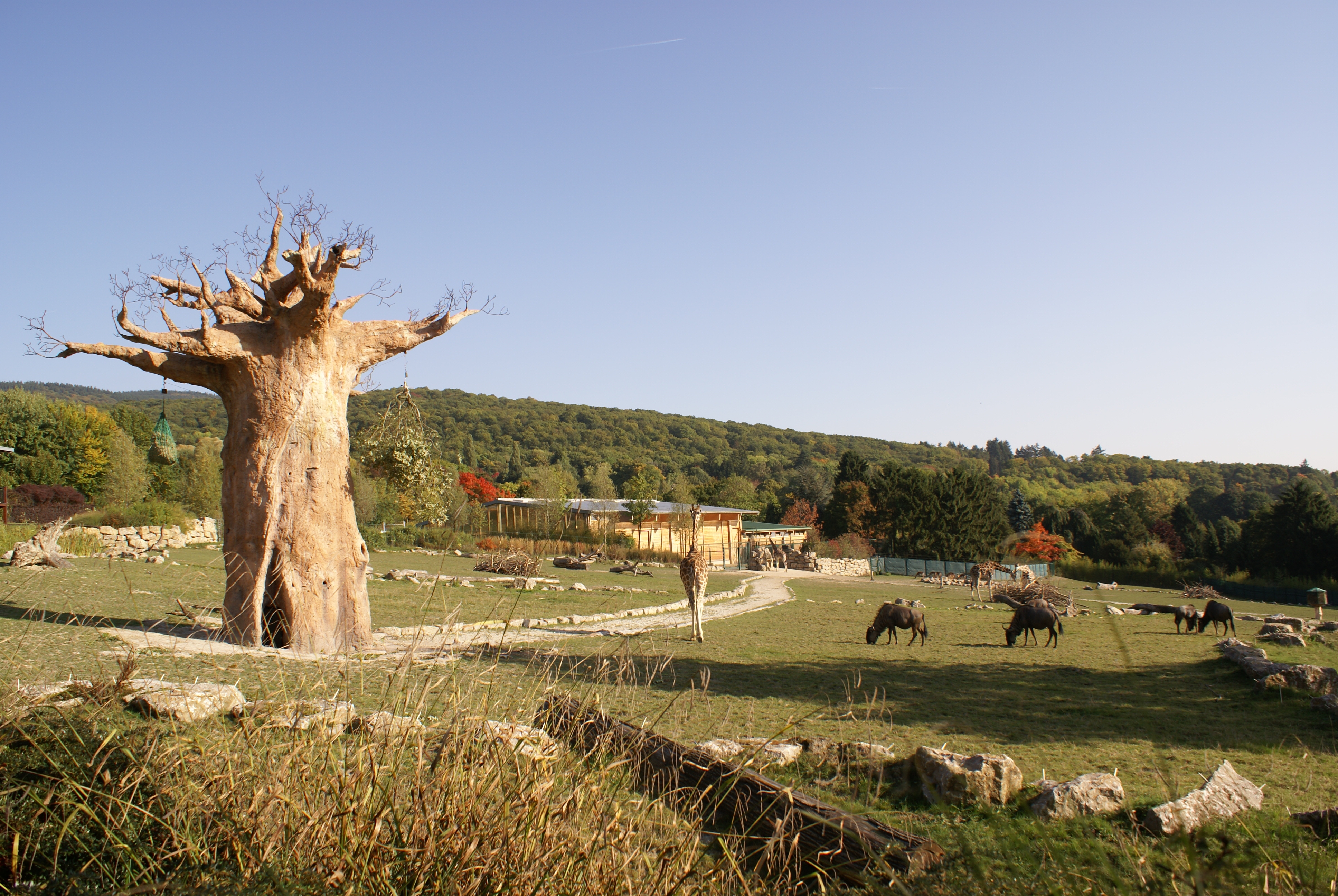 African savanna enclosure, Opel-Zoo Kronberg, Germany